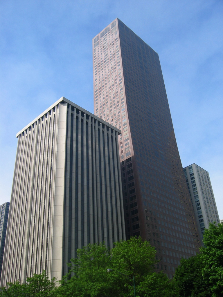 The Olympia Centre in Chicago, Illinois. Photographed 27 May 2006. © Jeremy Atherton, 2006.